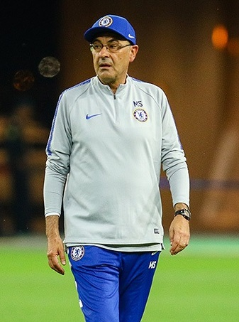 Maurizio Sarri